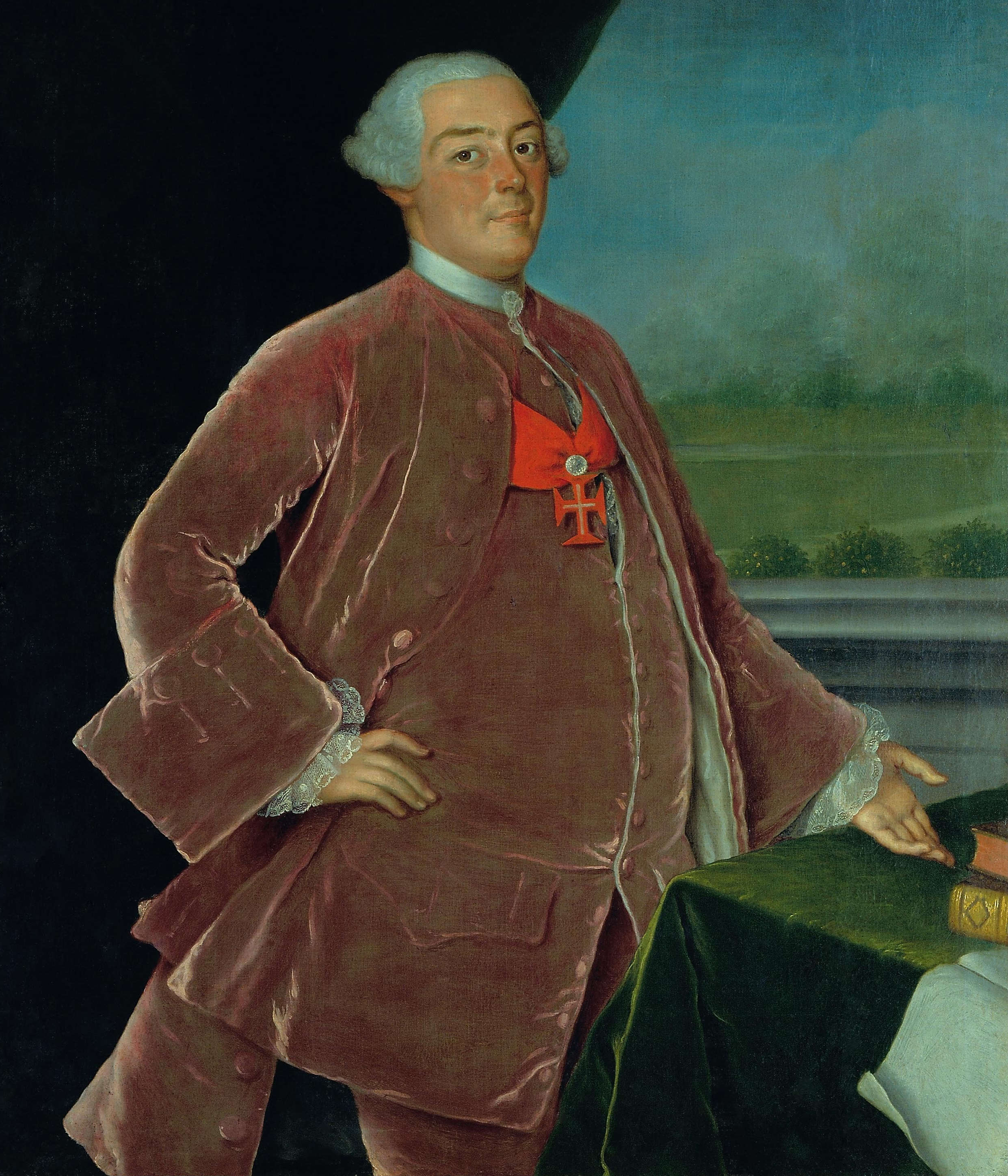 Portrait of Infante Pedro (future King Pedro III). Via Google Cultural Institute.